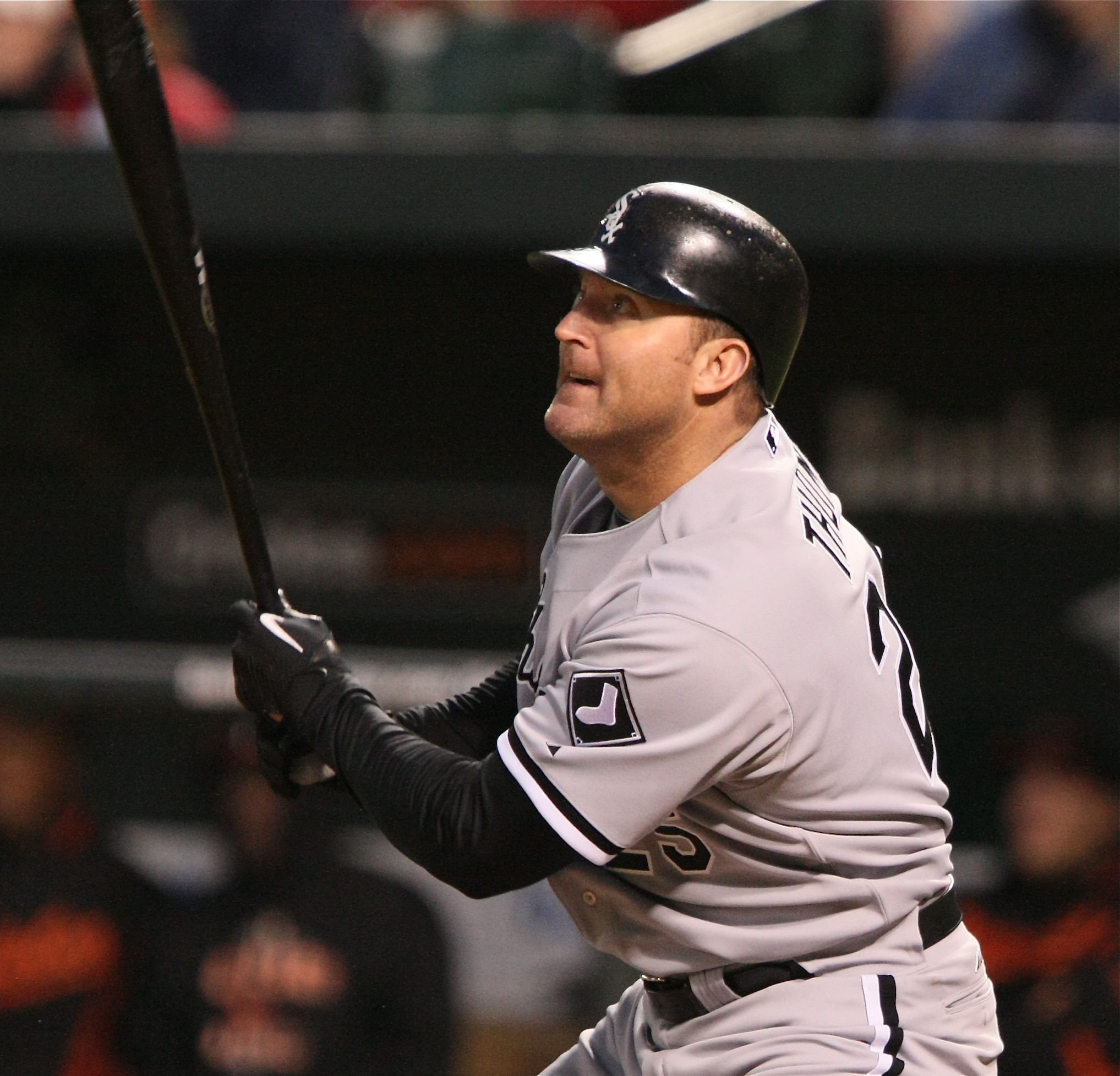 Jim Thome